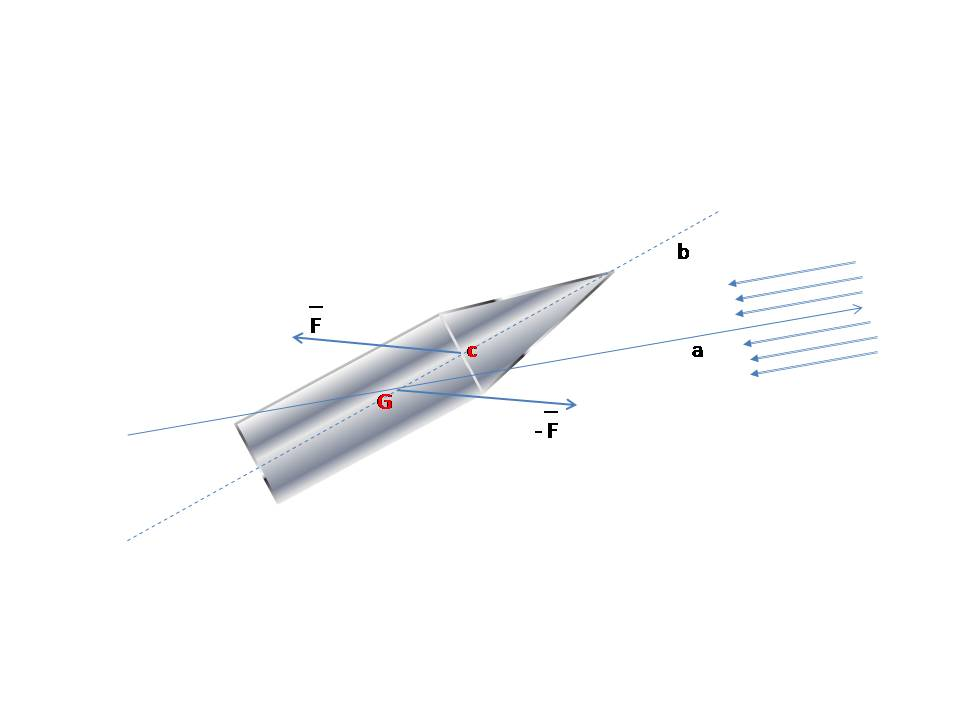 Force diagram applied on a projectile in flight, legenda:G center of gravity, c aerodynamic center, a tangent to trajectory, b projectile axis, F aerodynamic force.